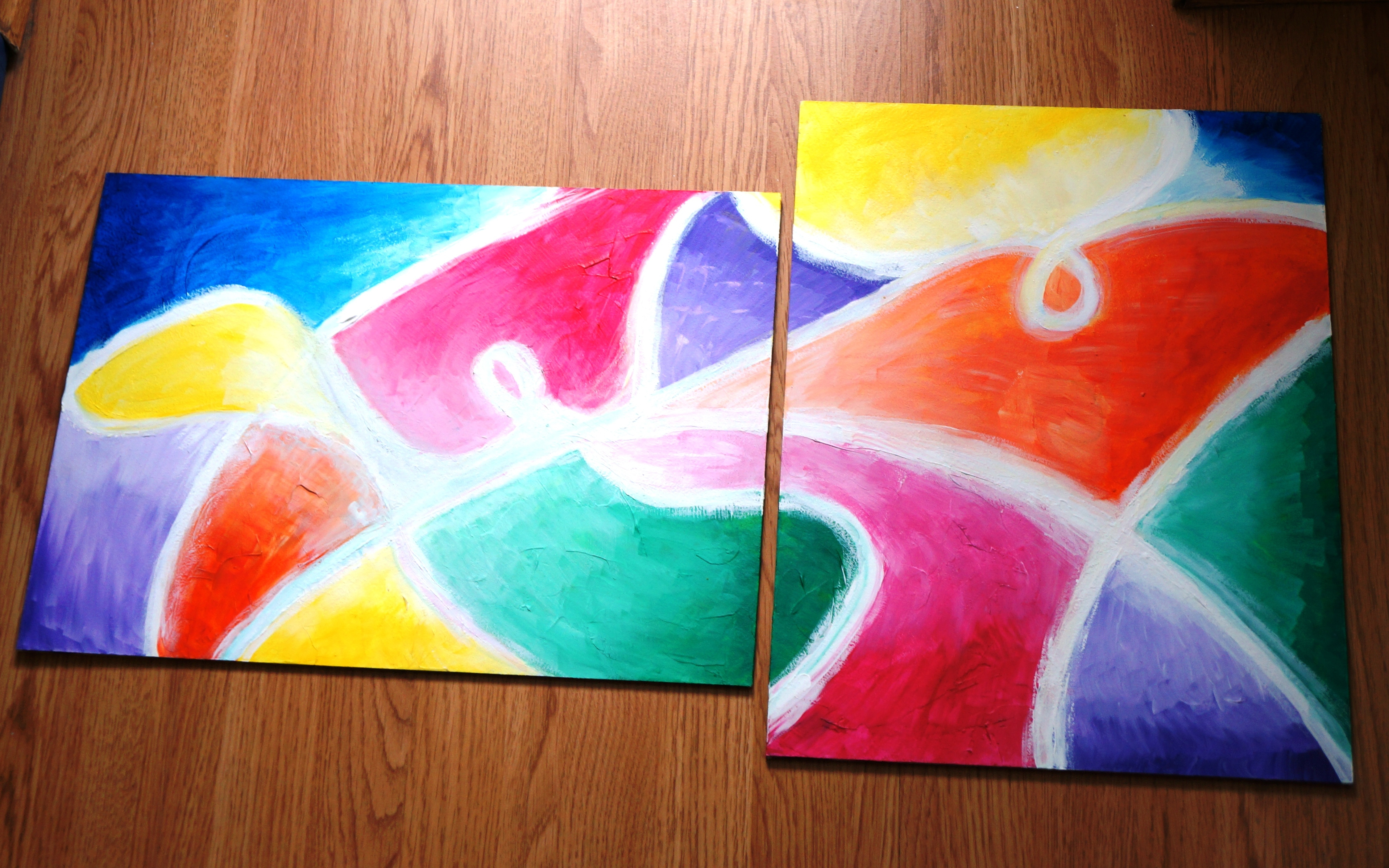 Happiness